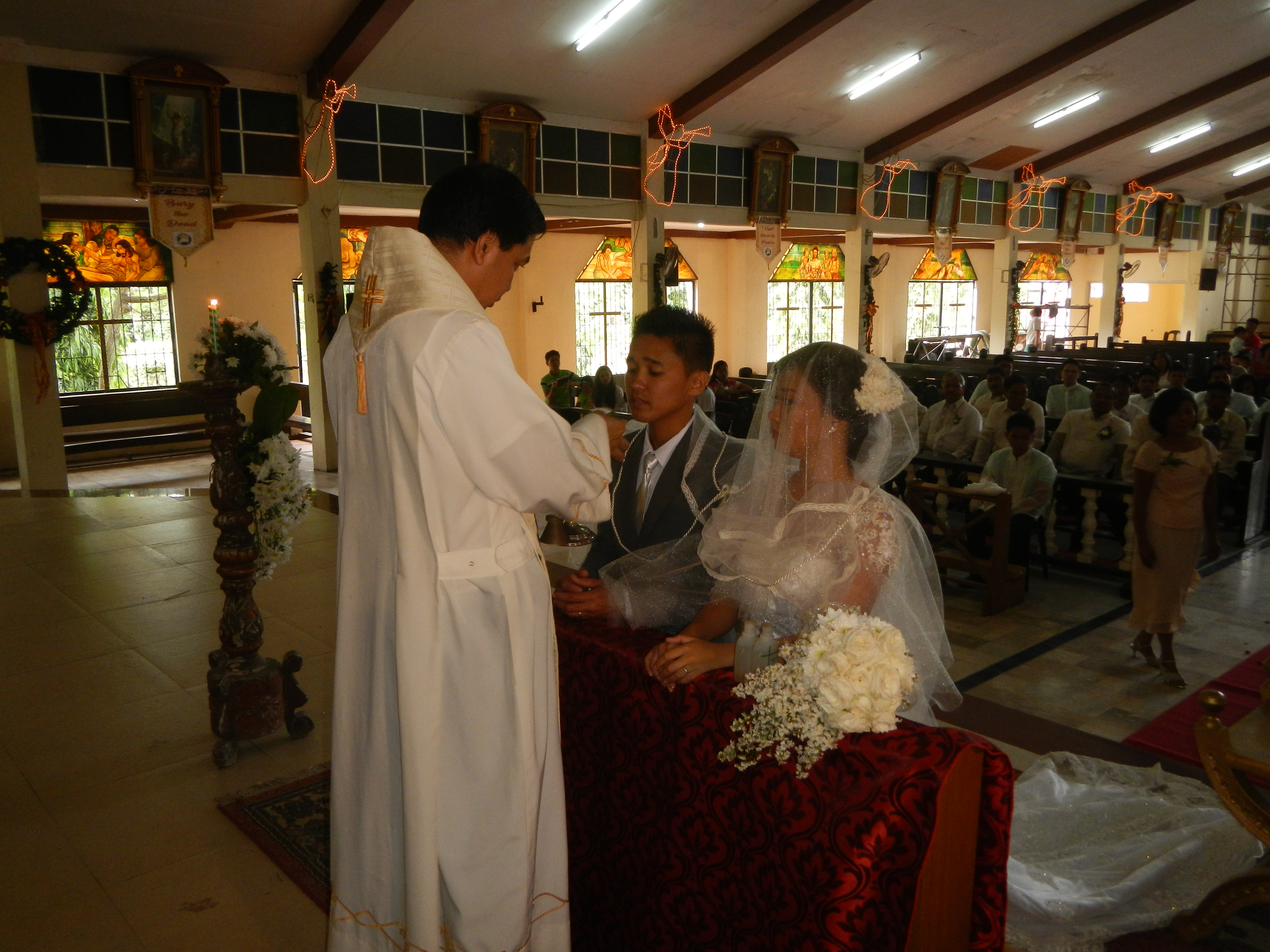 Saint Antoninus Parish Church of Pura beside Pura, Tarlac Municipal Building, Park and Plaza in List of Barangays in Tarlac, Barangays Poblacion 1, 2 and 3, Pura, Tarlac, Tarlac Province (Gerona-Pura, Tarlac Road interconnecting with the Cuyapo-Guimba, Nueva Ecija Road part of the Nueva-Ecija Pangasinan Road, the Nampicuan and Cuyapo, Nueva Ecija Provincial Road, the Moncada-Ramos-Anao-Nampicuan, Nueva Ecija Arterial Provincial Road interconnecting with the Tarlac–Pangasinan–La Union Expressway or TIPLex towards or from Barangay San Julian, Moncada, Tarlac into and from MacArthur Highway or Manila North Road).